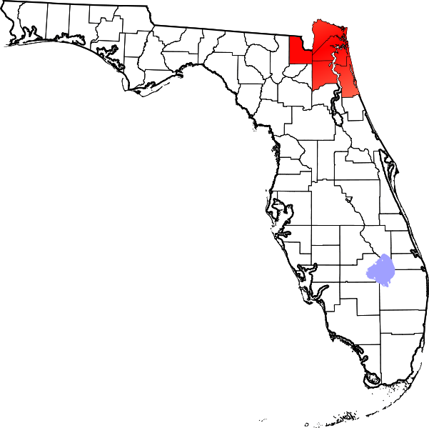 A map of Florida highlighting the Greater Jacksonville Metropolitan